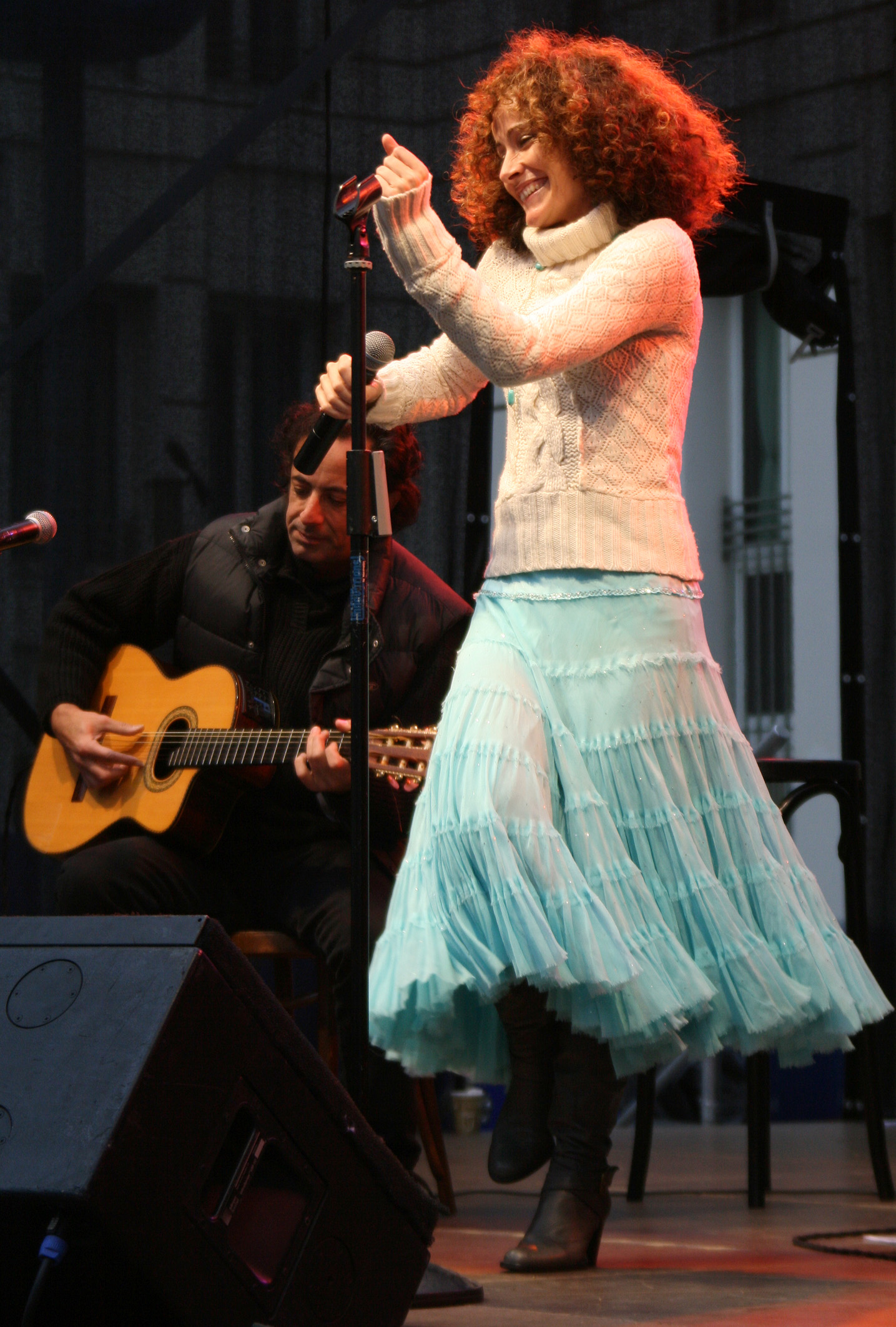 Singer Sandra Pires, Mario Berger - git.; concert at the Minoritenplatz in Vienna